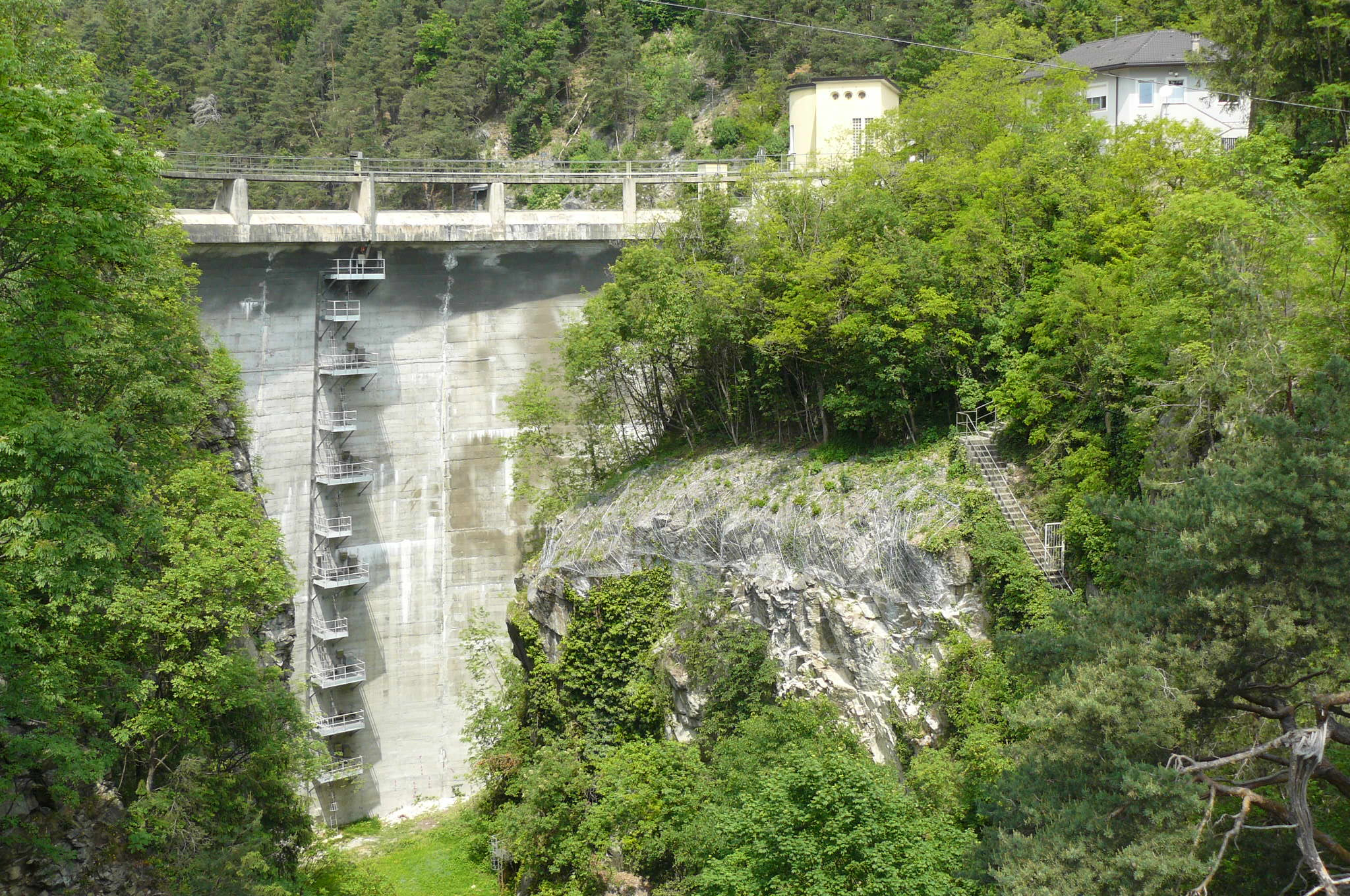 Dam of the Franzensfeste lake